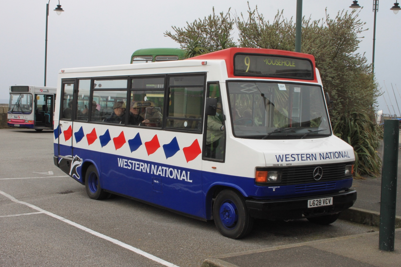 An old Western National minibus visits Penzance Bus Station during the local annual bus running day, Easter 2014. L628VCV is a Mercedes-Benz 709D with Plaxton Beaver body dating from 1994. It was number 628 in the Western National fleet.